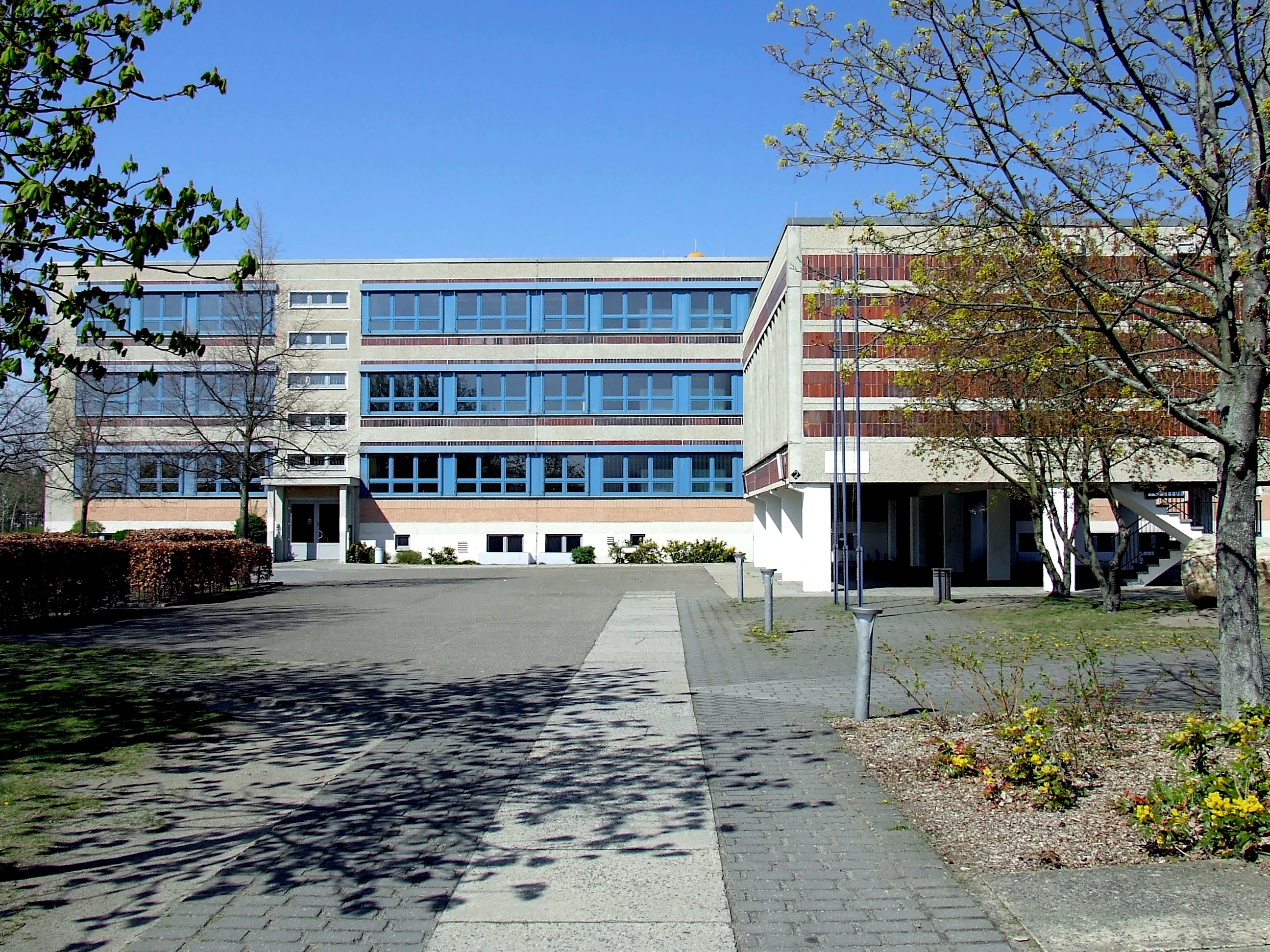 Secondary school Humboldt-Gymnasium, Schmellwitzer Weg 2 in Cottbus-Saspow.